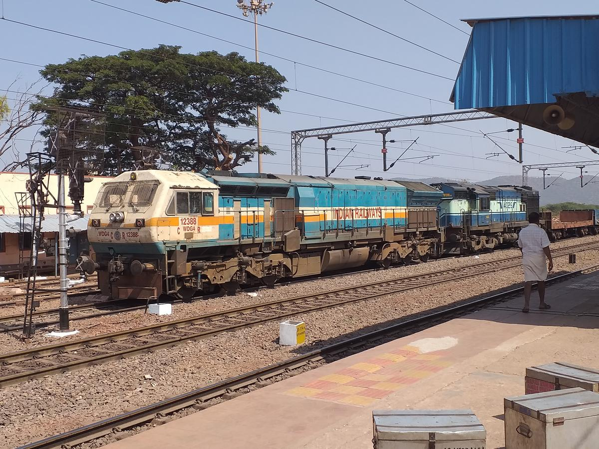 PUNE WDG4 12388 at Toranagallu Junction